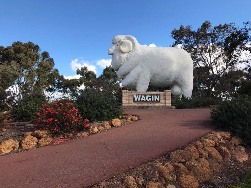 Big Sheep statue at Wagin